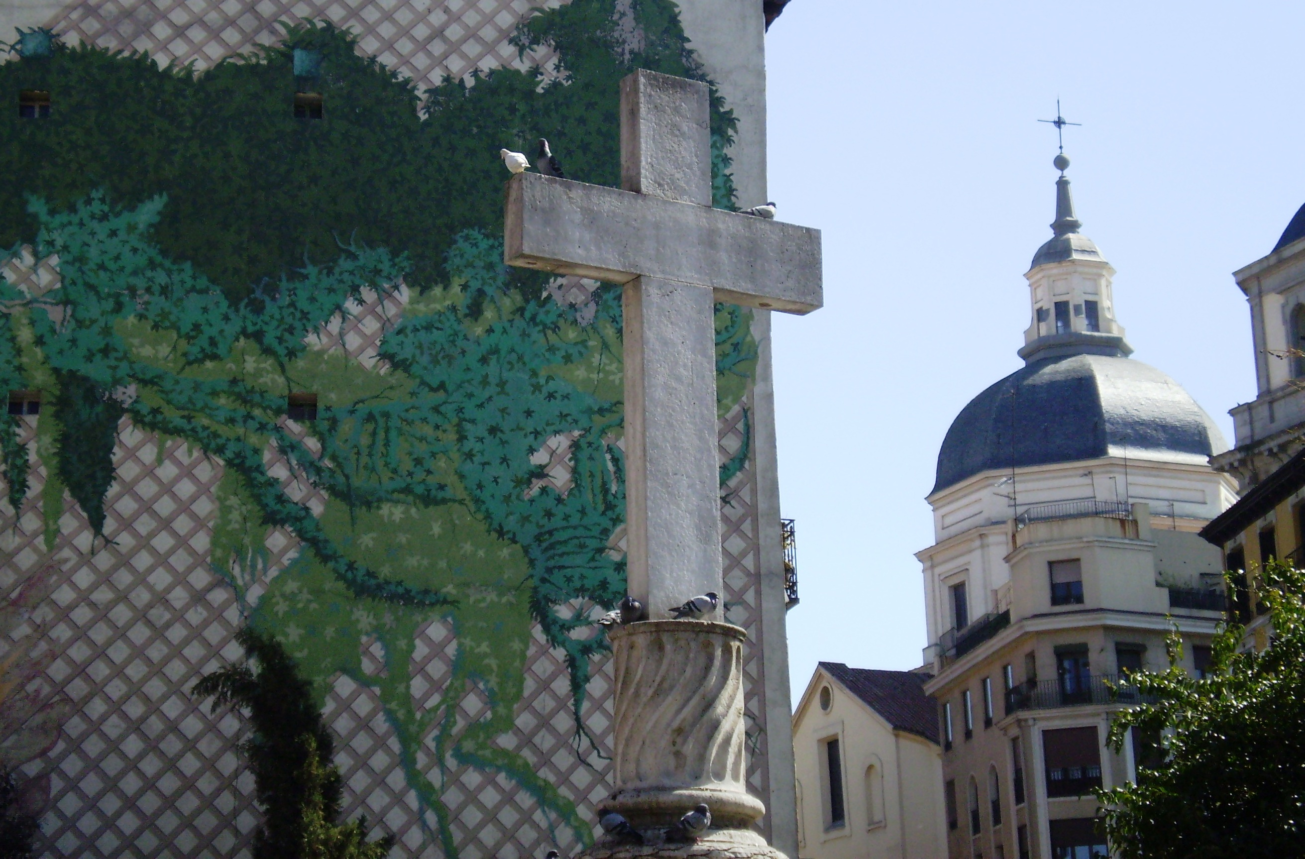 Puerta Cerrada Square. Madrid, Spain